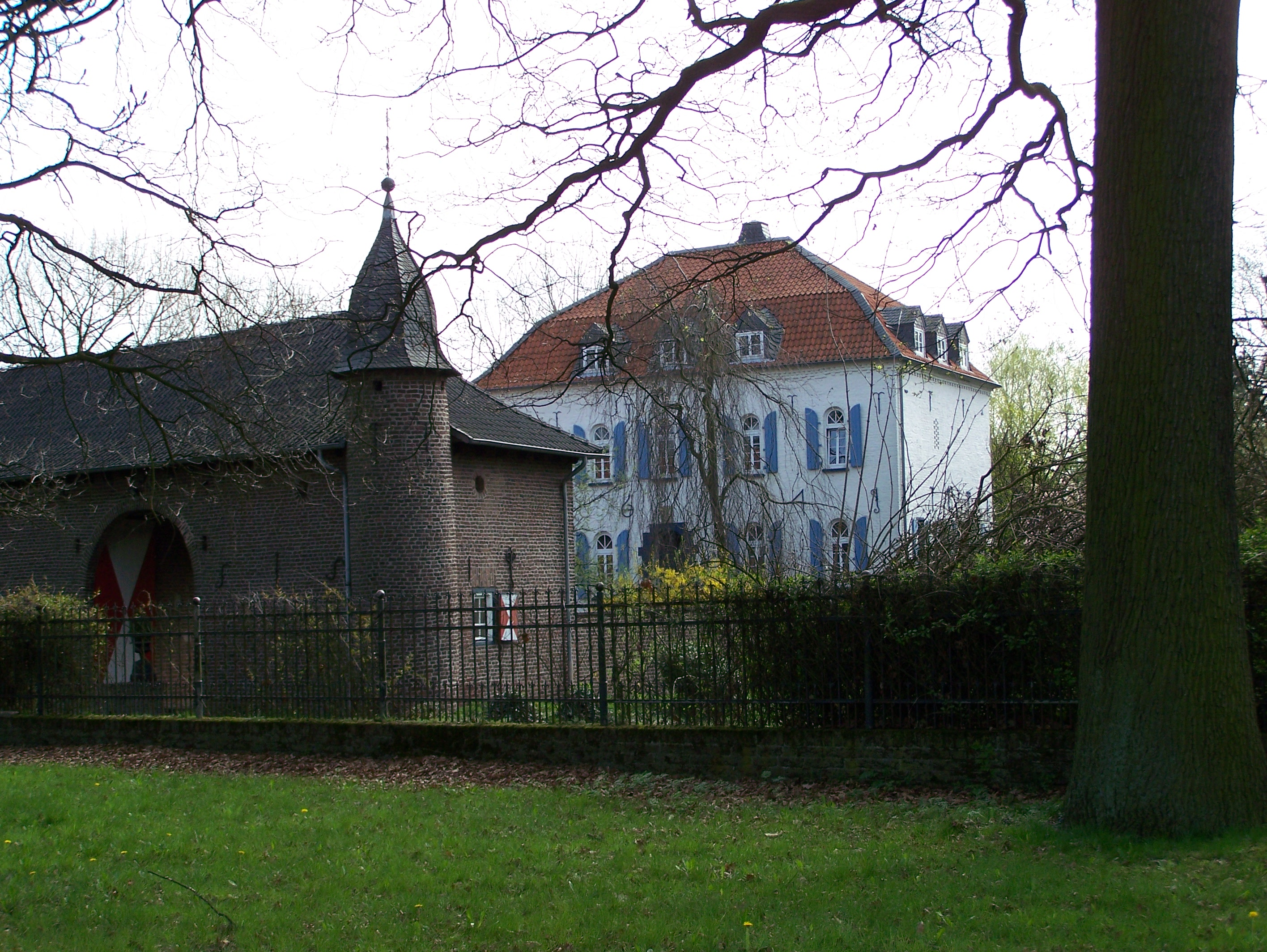 Weyer Kastell in Breyell